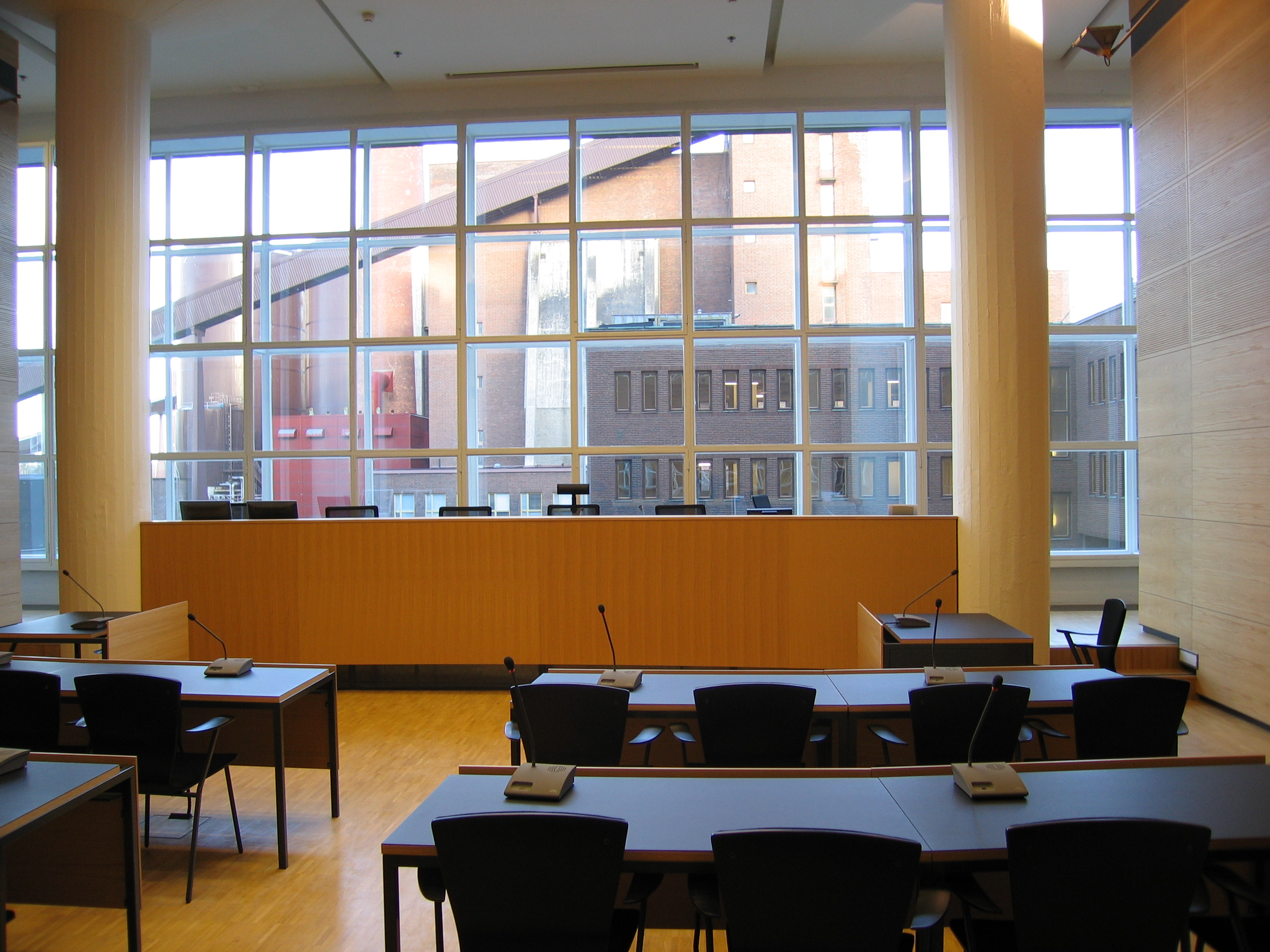 A court room in District Court of Helsinki, Finland